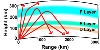 Diagram showing rays of the same frequency at several different transmission (and incident) angles. The frequency is greater than the critical frequency, therefore the two most vertical rays pass into space. The next two rays are refracted in the F layer, indicating that the signal frequency is less than the MUF for these angles but greater than the E layer MUF. For the last ray (lowest transmission angle) the E layer MUF is greater than the transmission frequency and the ray is unable to reach the F layer.